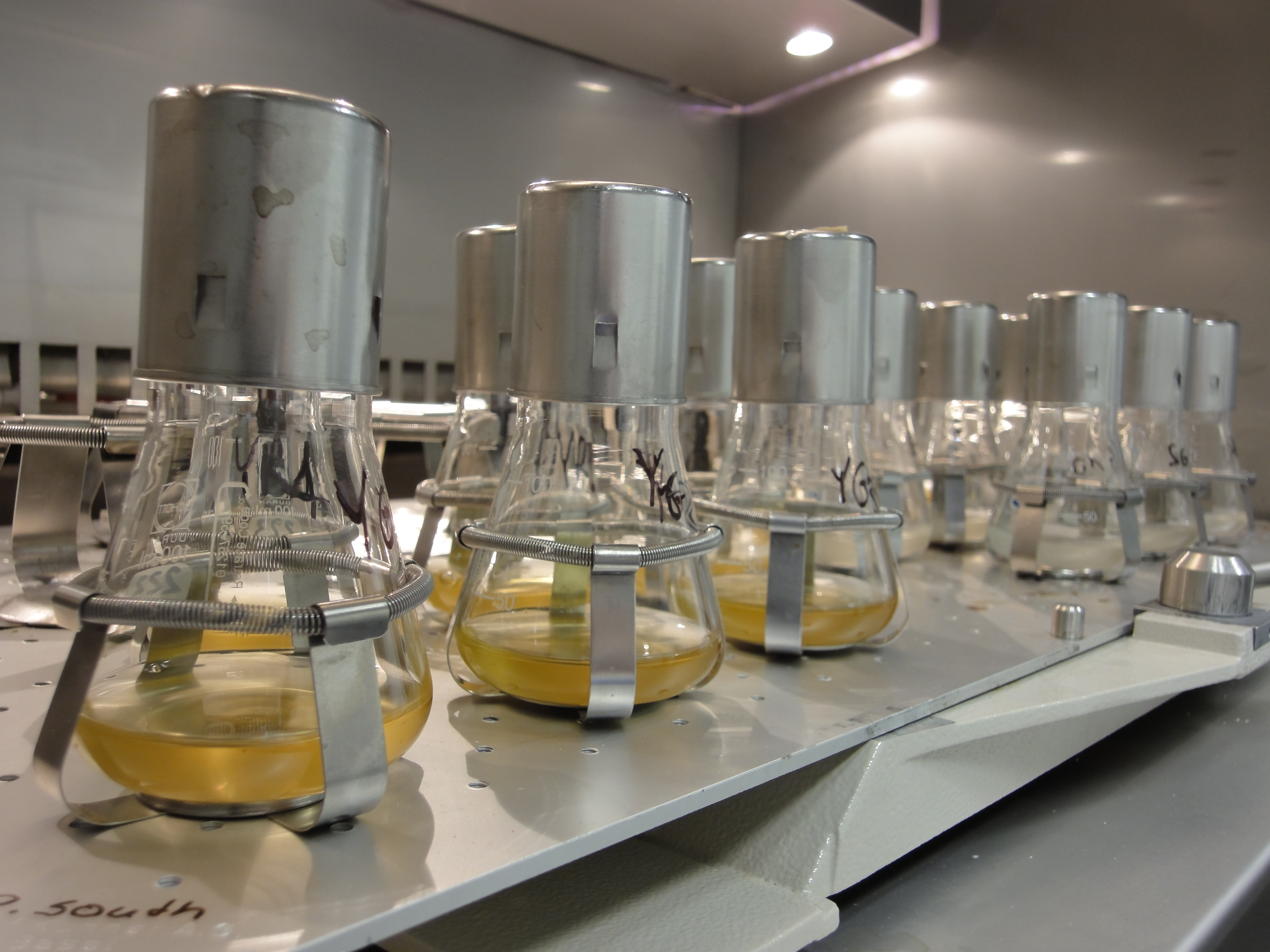 Yeast cultures in an incubator